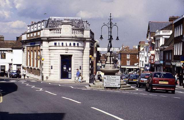 A224/A225 Junction, Sevenoaks This is what it looked like in 1995 on my only visit here, which was on foot from Shipbourne. The Midland Bank was consigned to history some time ago